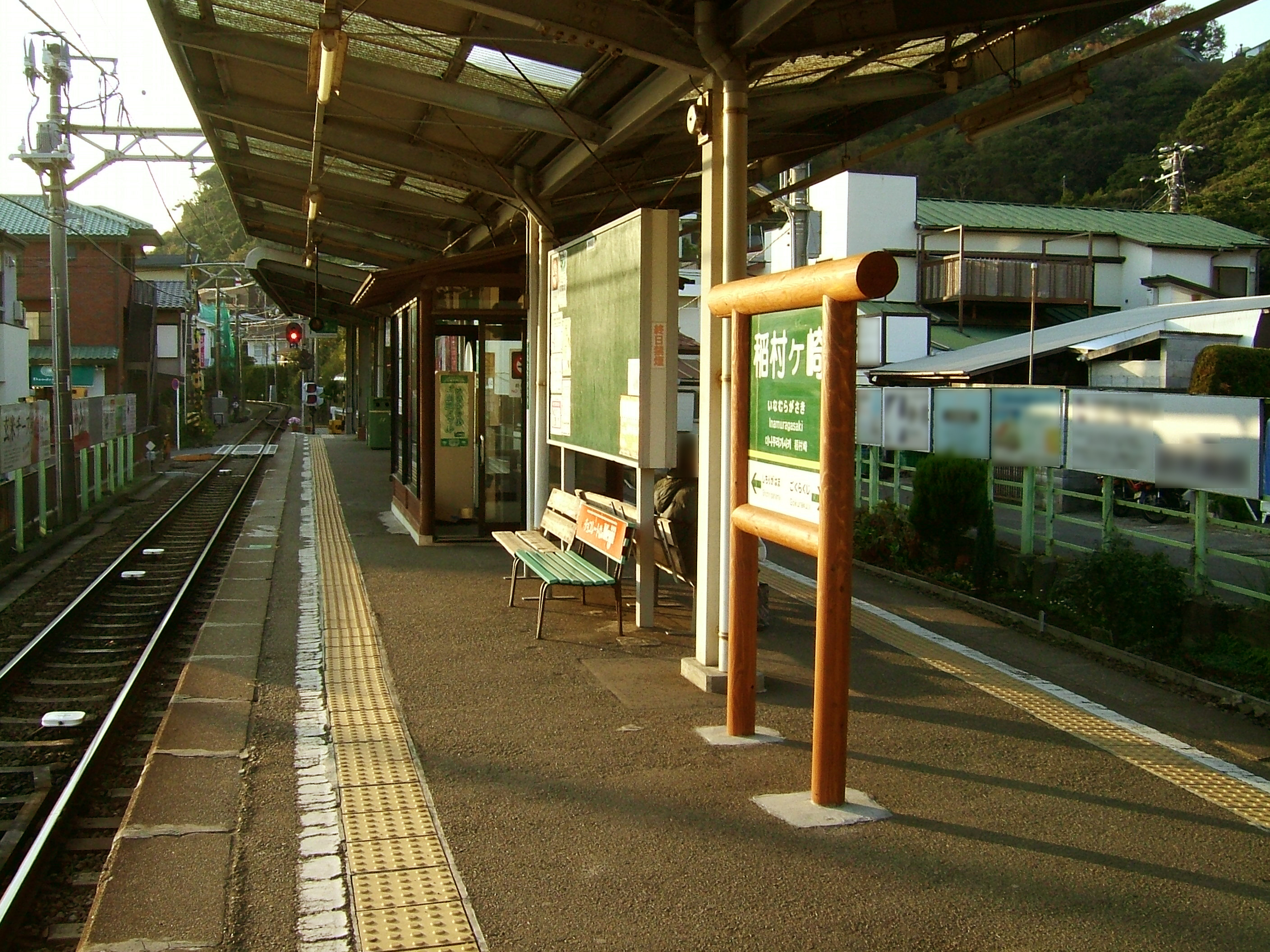 The platform at Inamuragasaki Station on the Enoden Line in Kamakura city, Kanagawa prefecture, Japan